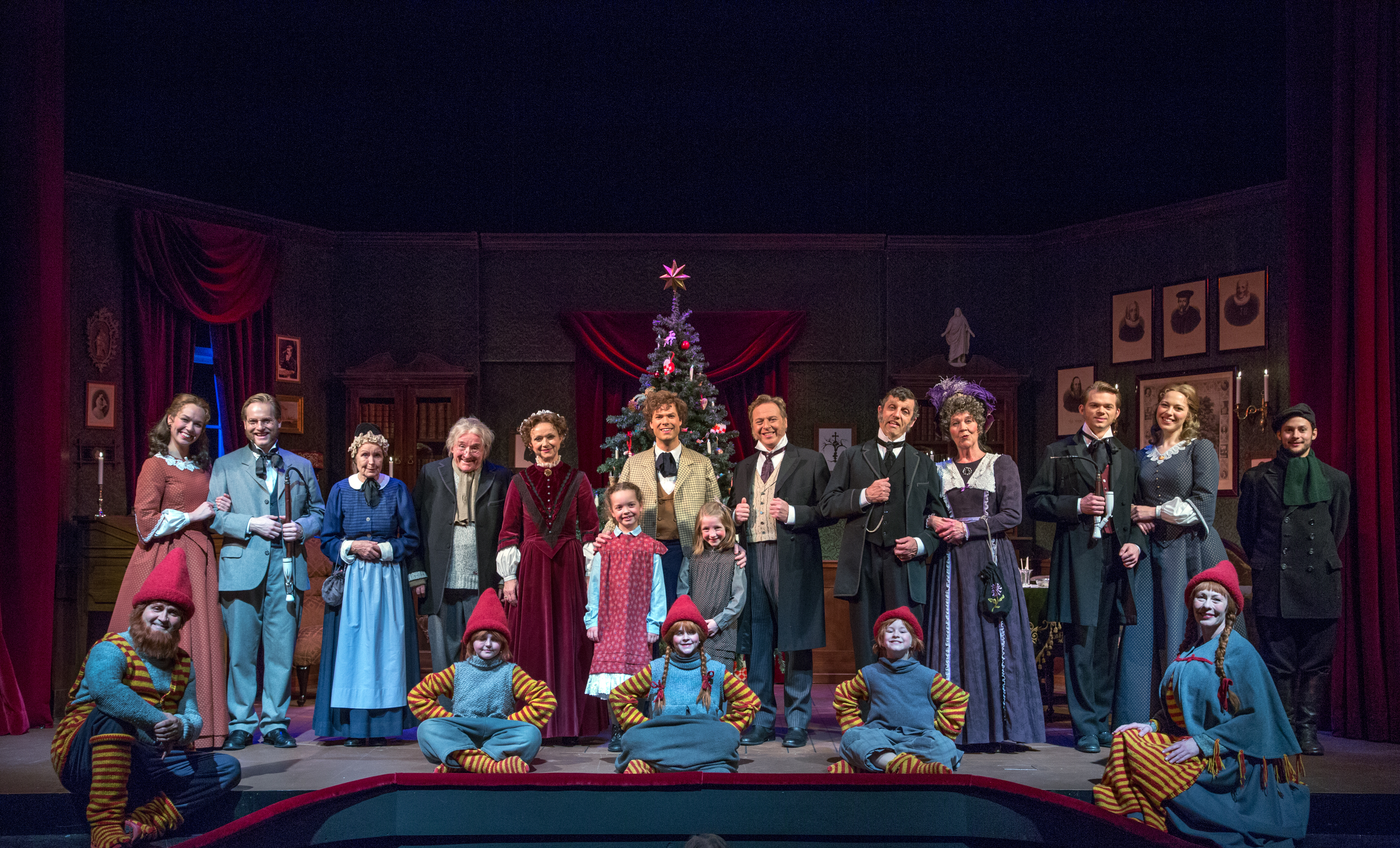 The Copenhagen theater Folketeatret's production of the play "Nøddebo Præstegård" based on the novel "Ved Nytaarstid i Nøddebo Præstegaard" by Henrik Scharling.